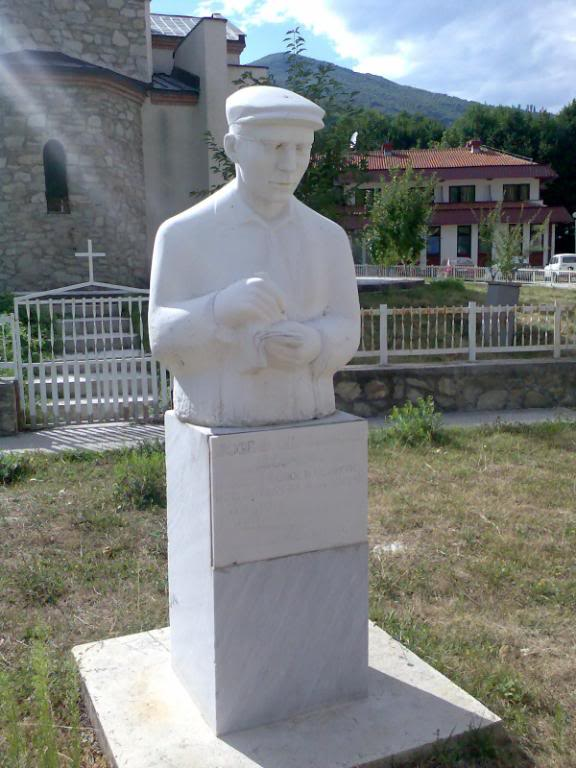 Village of Samokov, Poreche region, Republic of Macedonia